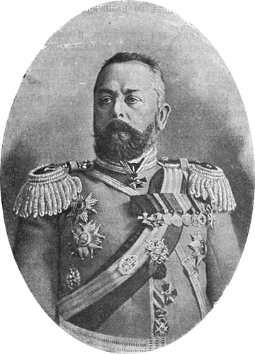 Aleksandr Vassilievich Samsonov, Russian general